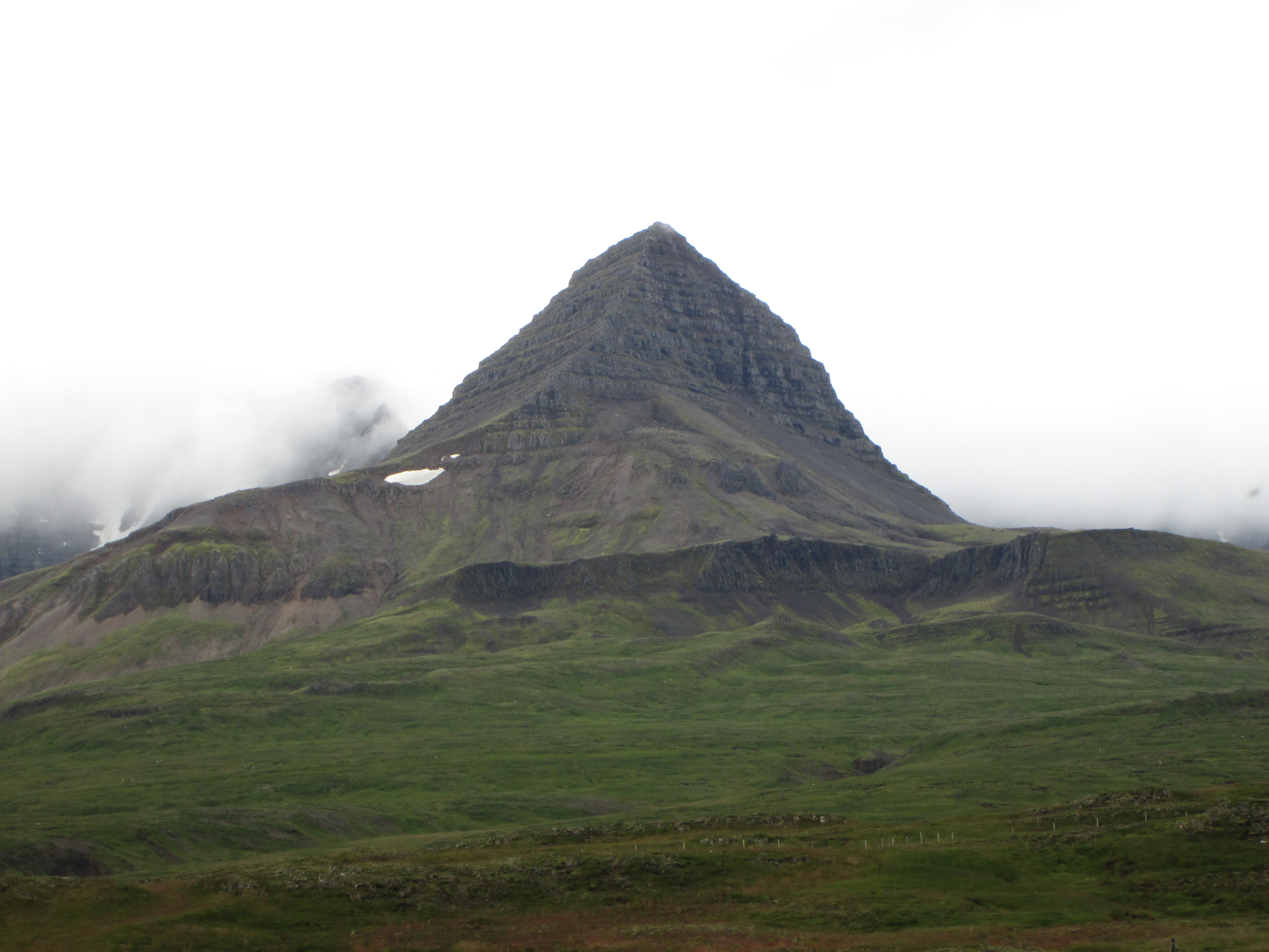 Skessuhorn, Skarðsheiði, Iceland, seen from north (Highway 507)